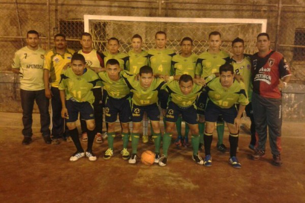 Futsal team Huracanes de Apure Futsal Club (Venezuela)